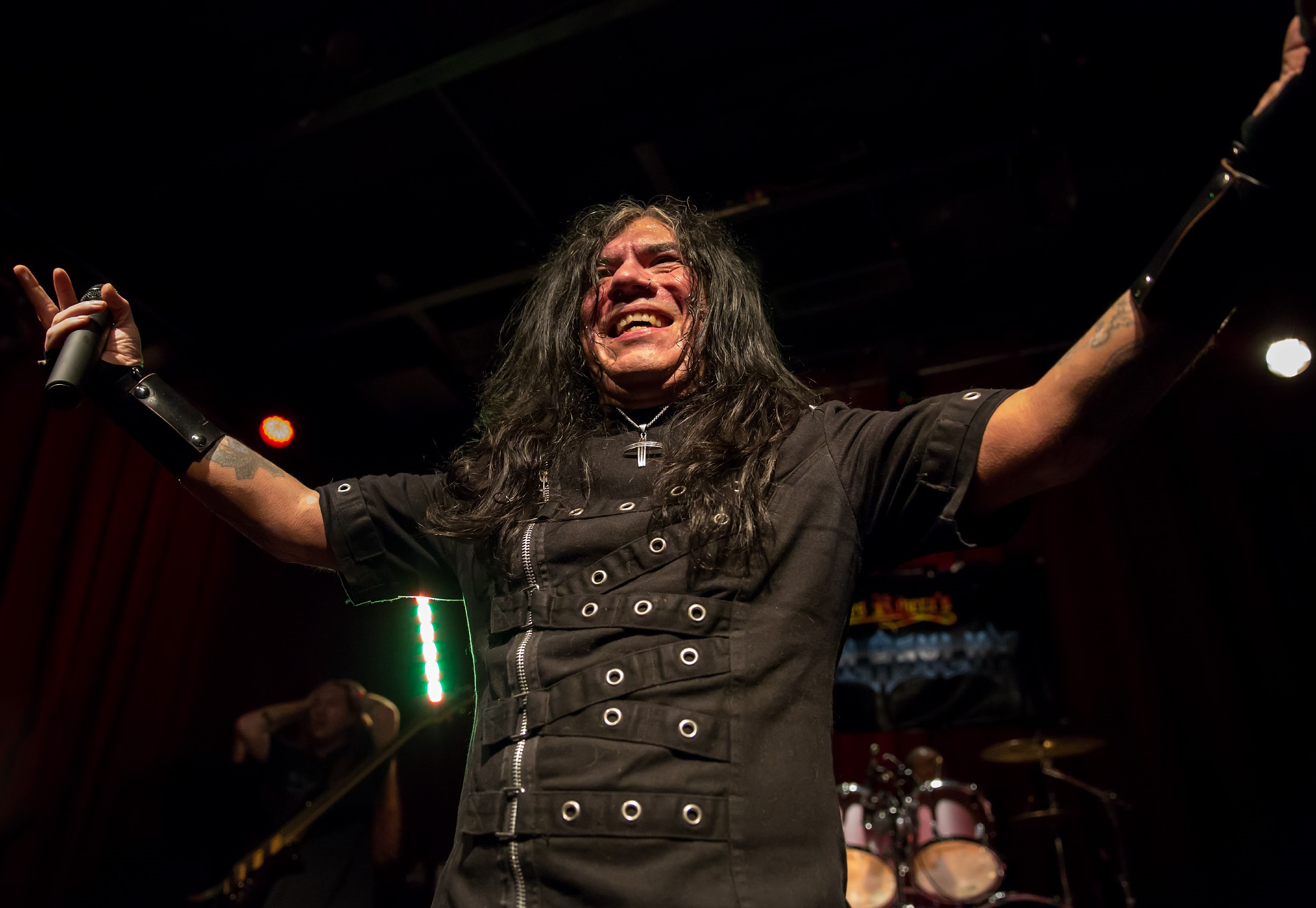 James Rivera, Metal Asylum (San Antonio, 2014-08-16).